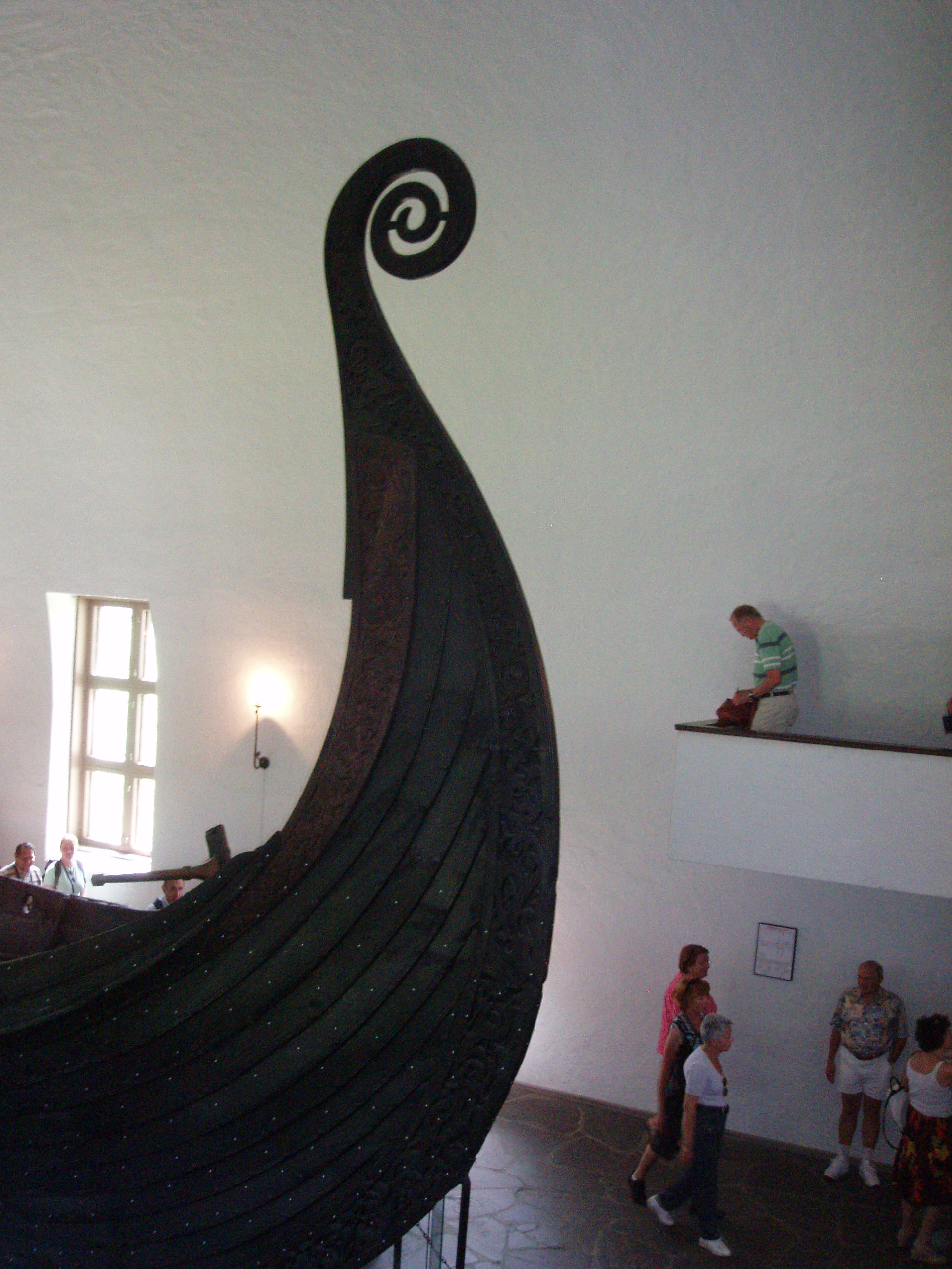 The back bow of the Oseberg ship.